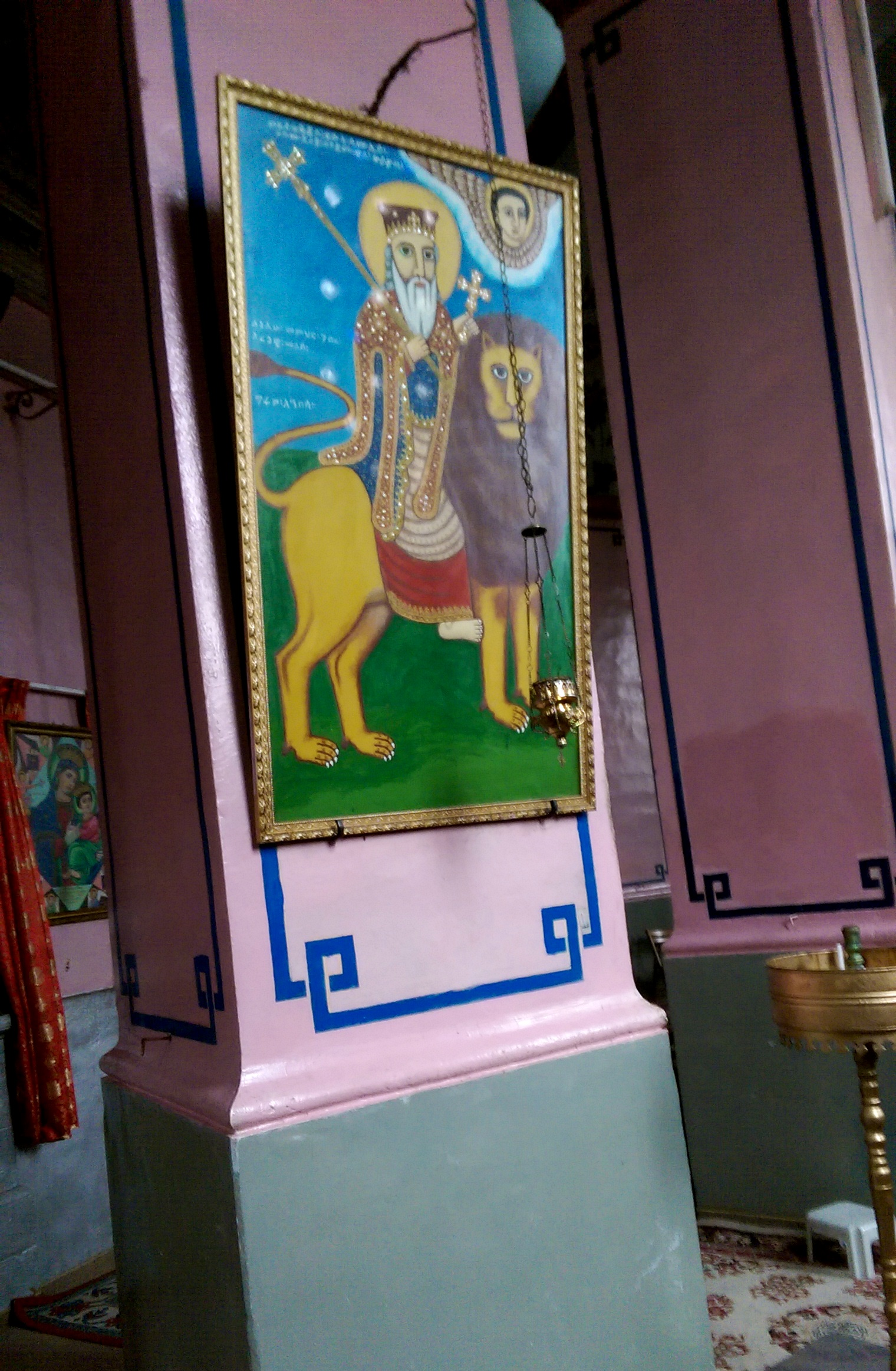 Icon of Abuna Samuel of Waldebba at the Ethiopian Abyssinian Church, Jerusalem